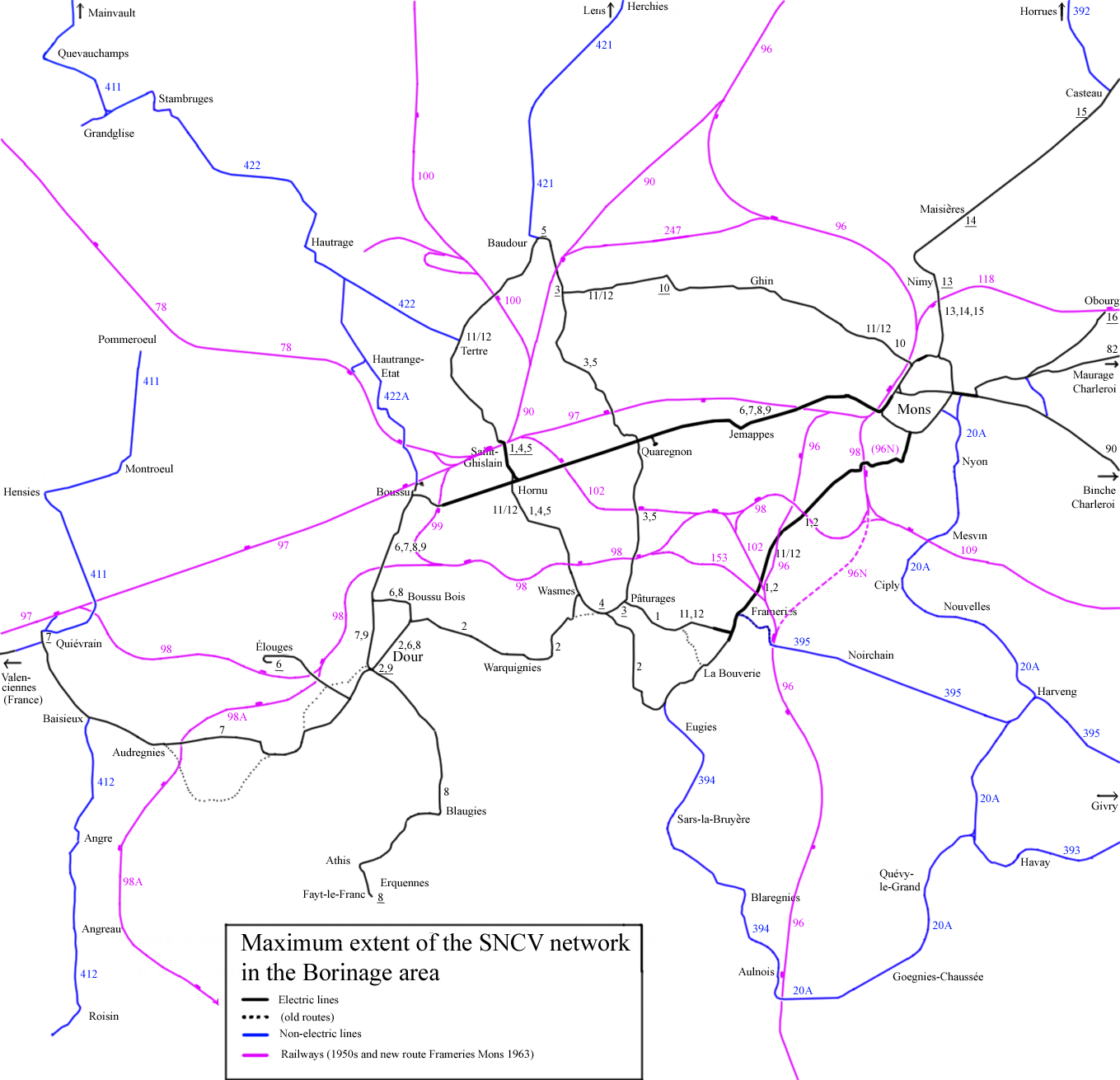 Vicinal railway net work in the Borinage (Hainaut) area.